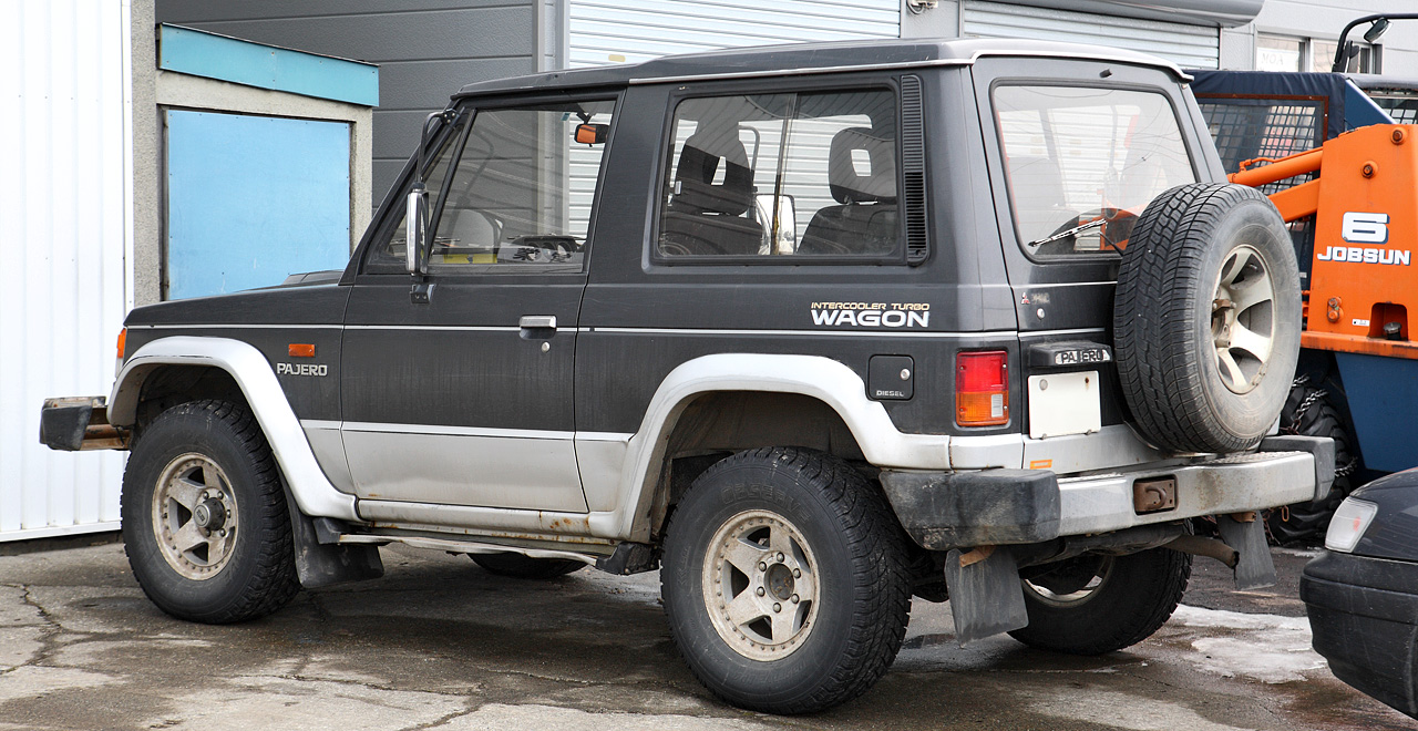 First generation Mitsubishi Pajero Metaltop Wagon 2.5D Turbo XL Wide